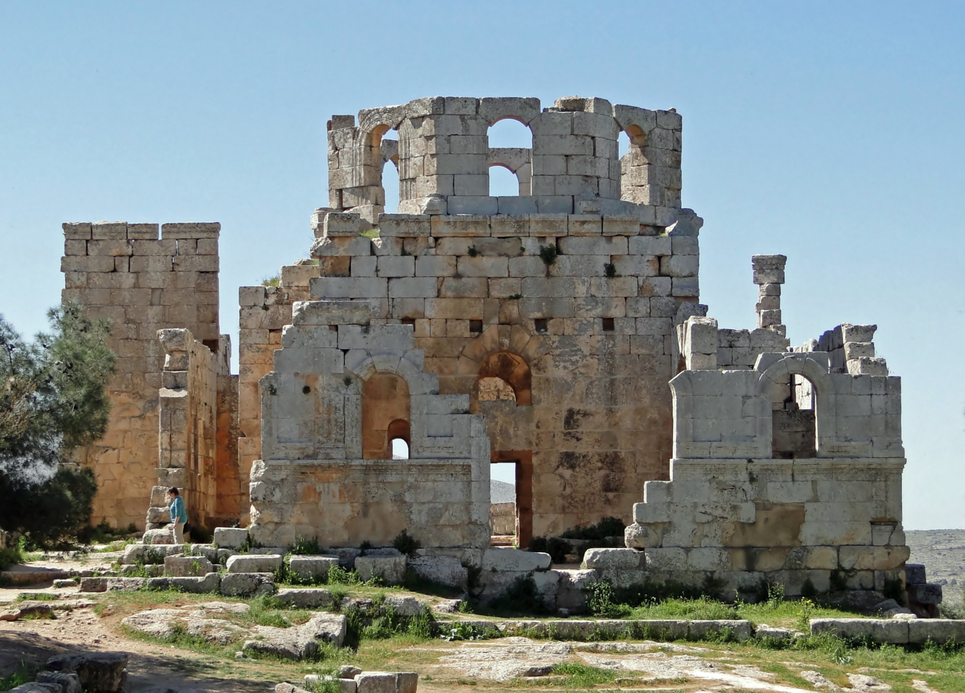 The Baptistry at the Church of Saint Simeon Stylites, Syria